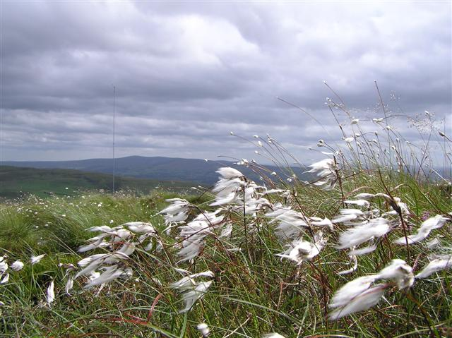 Bog cotton on Owenreagh Hill. A common sight in bogland in Ireland.